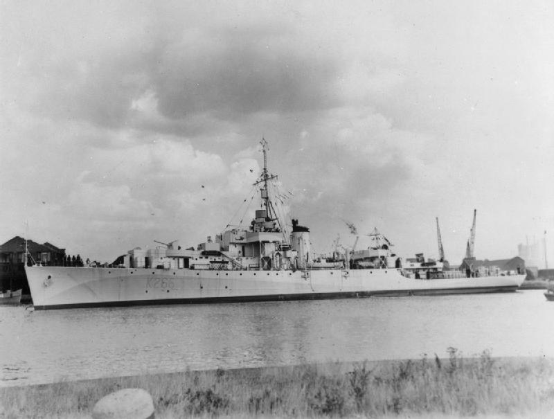 Photograph of British frigate HMS Fal.